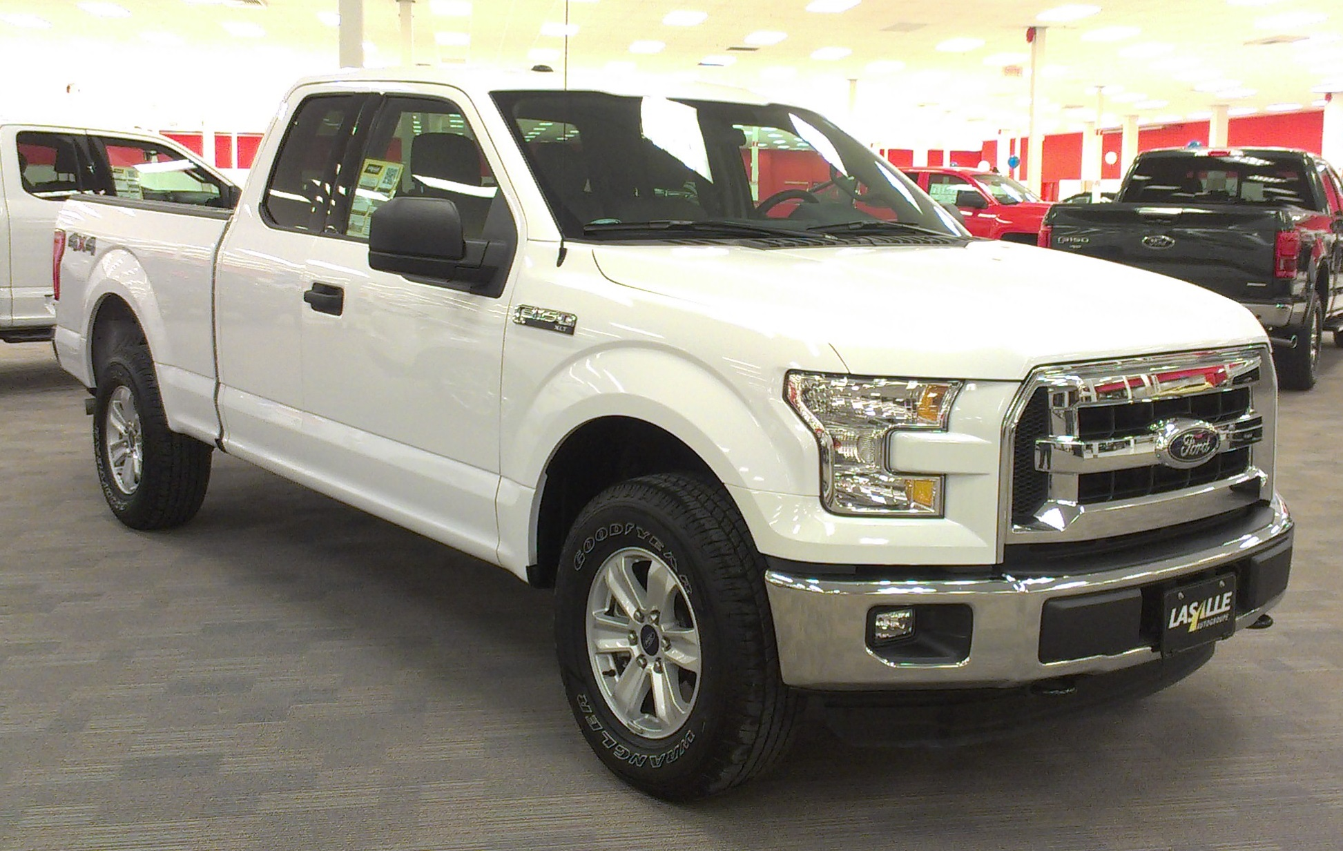 2016 Ford F-150 photographed in Montreal, Quebec, Canada at the Carrefour Angrignon auto show that was located where Target was.